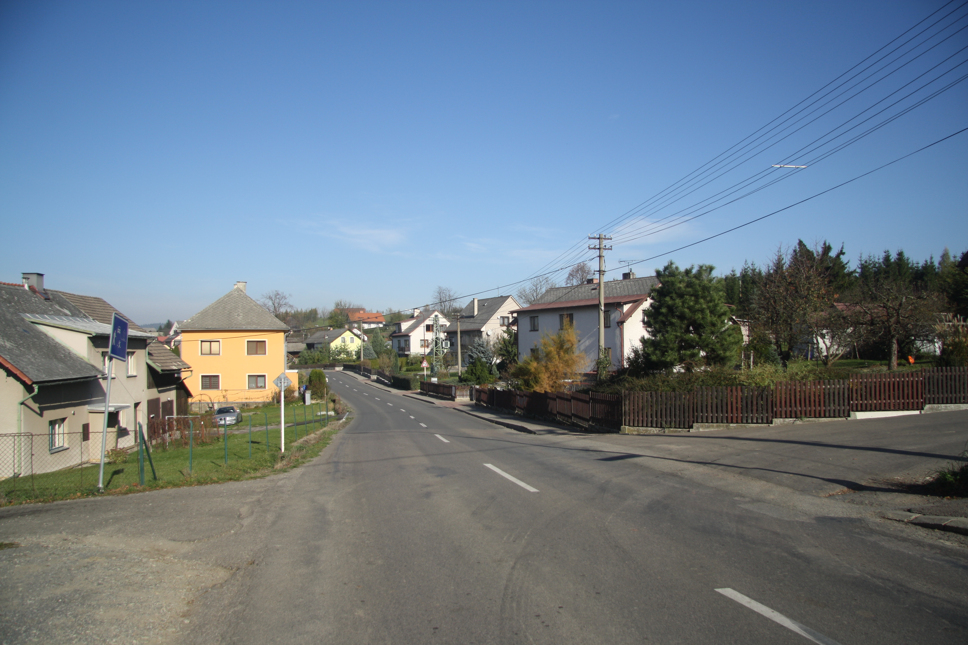 Center near church in Lukavice, Ústí nad Orlicí District